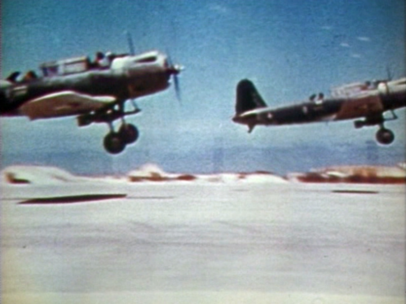 U.S. Marine Corps Vought SB2U-3 Vindicator dive bombers of Marine scout bombing squadron VMSB-241 taking off from Eastern Island, Midway Atoll, during the Battle of Midway, 4-6 June 1942.